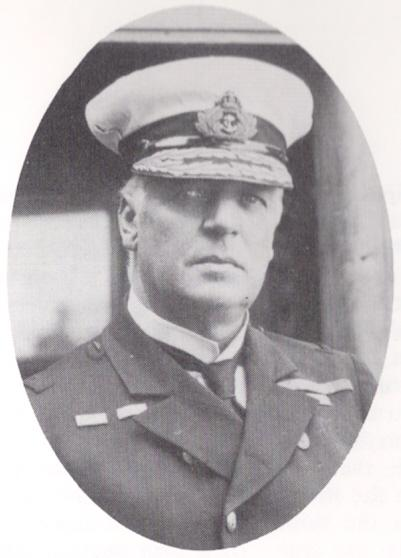 Lord Charles Beresford (1846-1919)